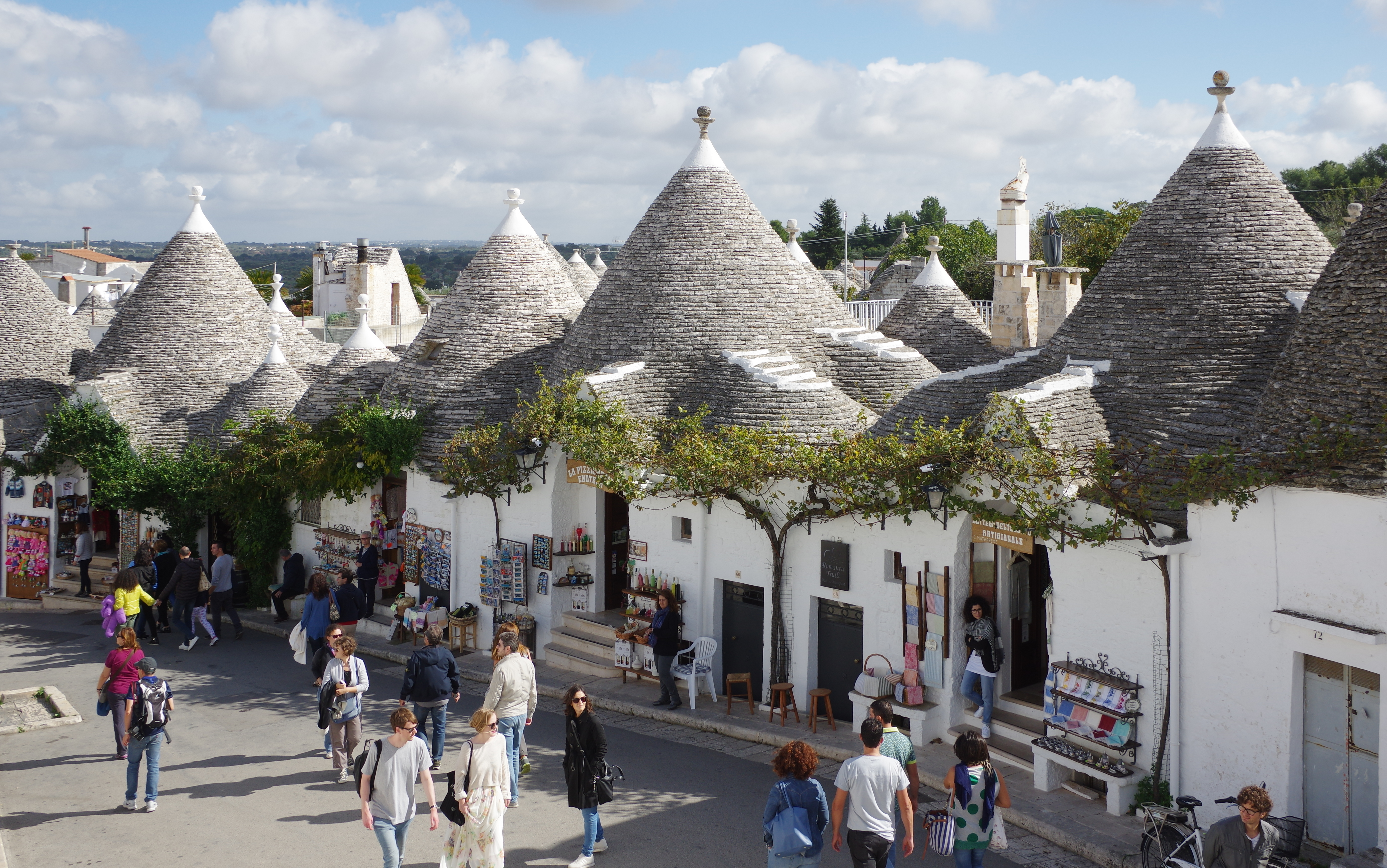 Italy, Alberobello, Trullo (Trulli)